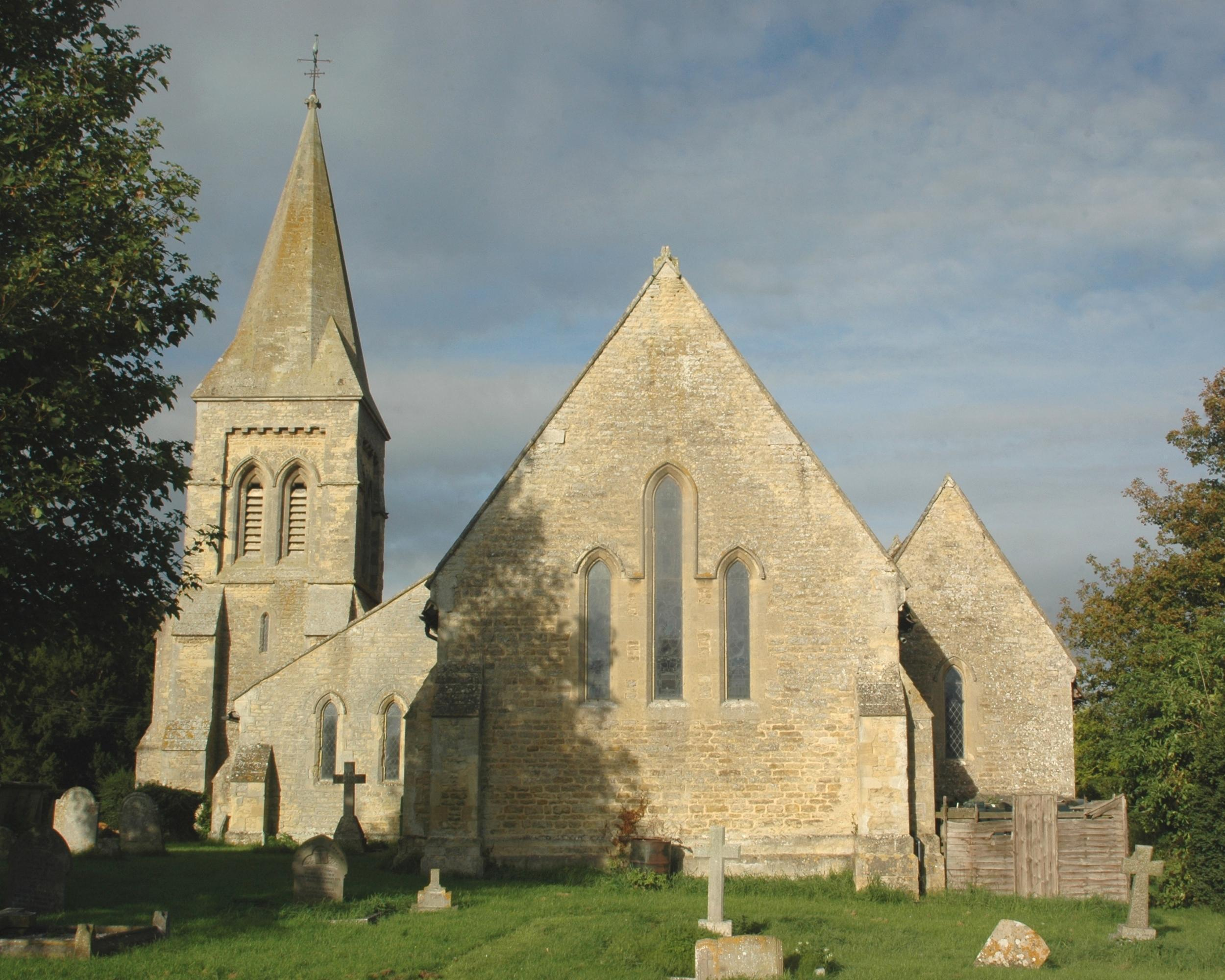 Church of England parish church of Saint Giles, Tetsworth, Oxfordshire, seen from the east